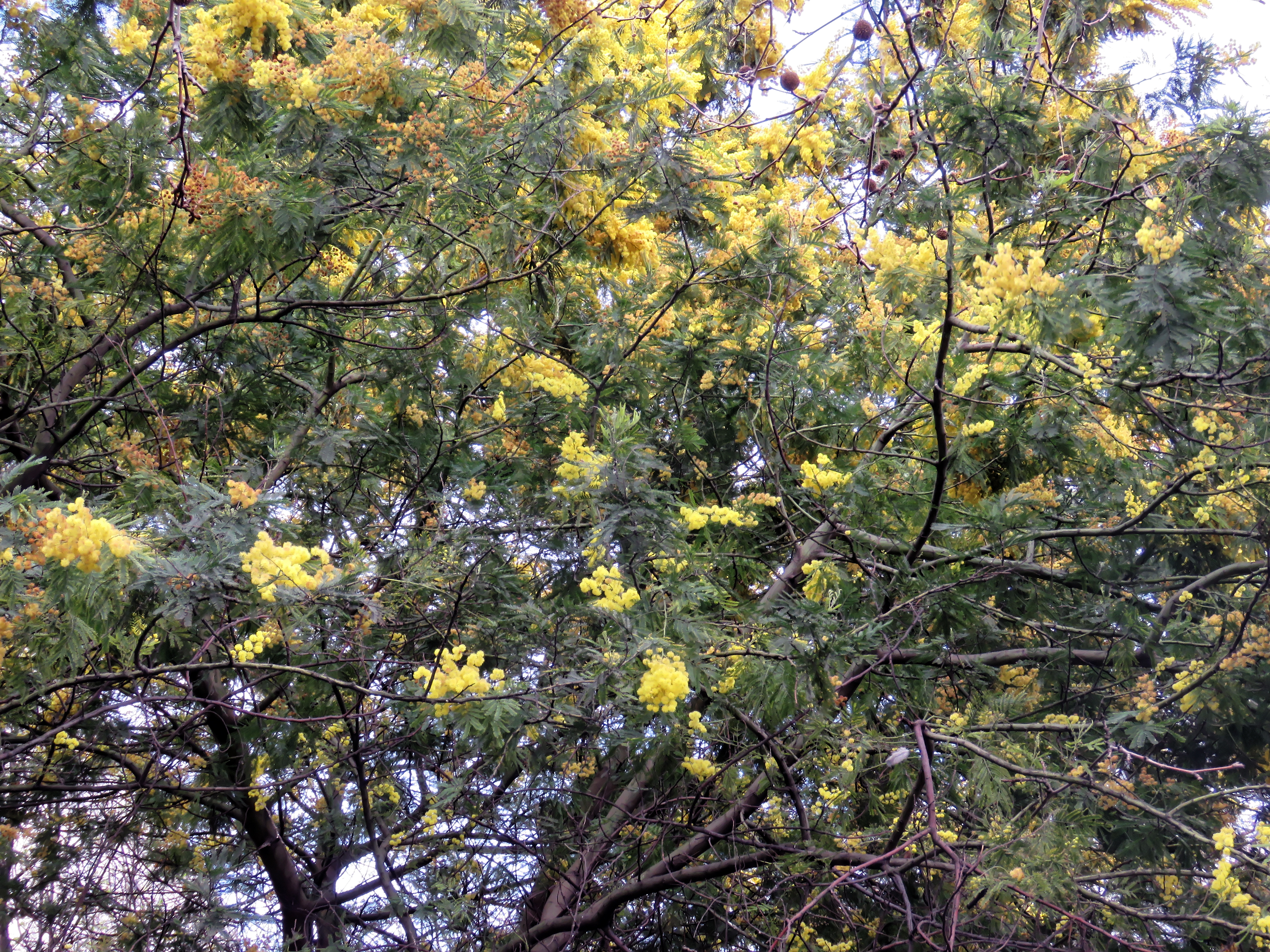 Mimosa scabrella, aka Acacia Mimosa Tree, Flowering Acacia, Acacia dealbata or Silver Wattle, in the Victoria Embankment Gardens, beside the River Thames in the City of Westminster, London, England.Camera: Canon PowerShot SX60 HS.Software: file lens-corrected and optimized with DxO PhotoLab Elite and Viewpoint 3, and further optimized with Adobe Photoshop CS2.